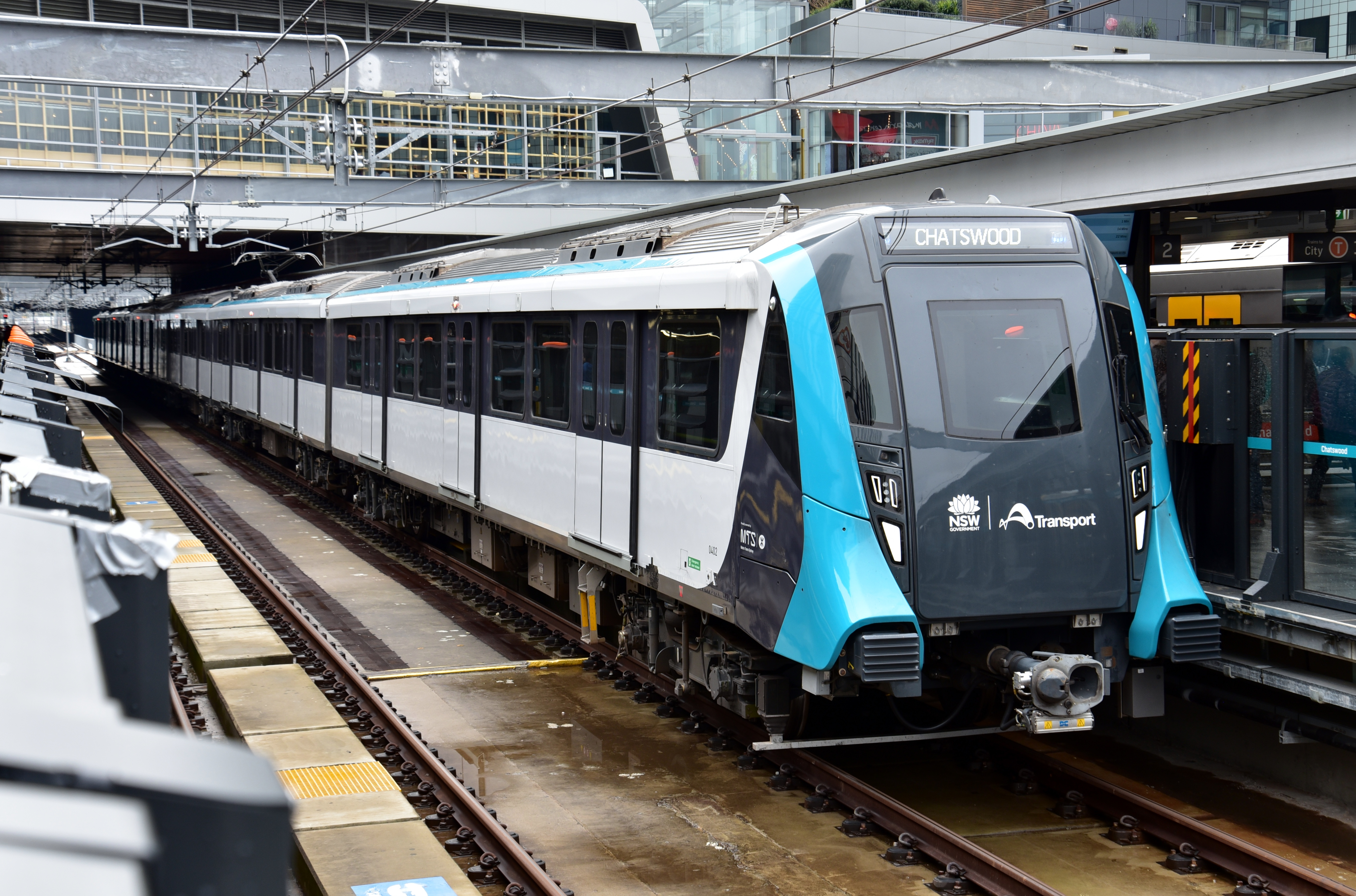 Sydney Metro Alstom Metropolis unit no. 0402 following its arrival at Chatswood railway station after operating a Metro North West Line service from Tallawong